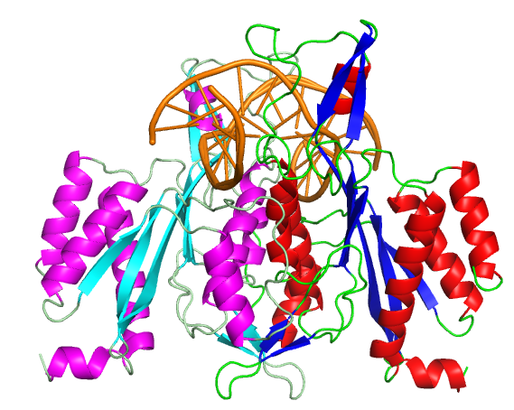 EcoRI dimer (biological unit) bound to DNA. PDB file 2ckq